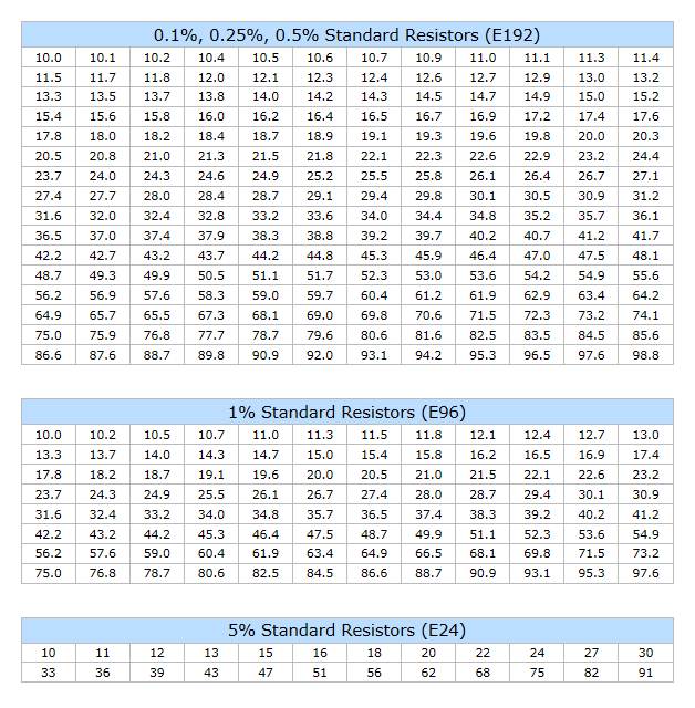 Tables of standard resistance values (E24, E96 and E192)